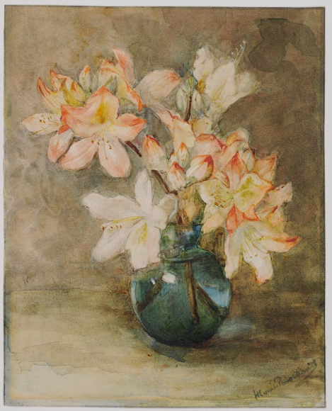 Vase with Lilies